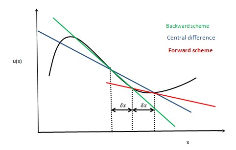 it compares different cfd schemes